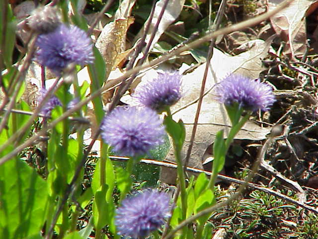 Species: Globularia trichosantha Family: Globulariaceae Image No. 1